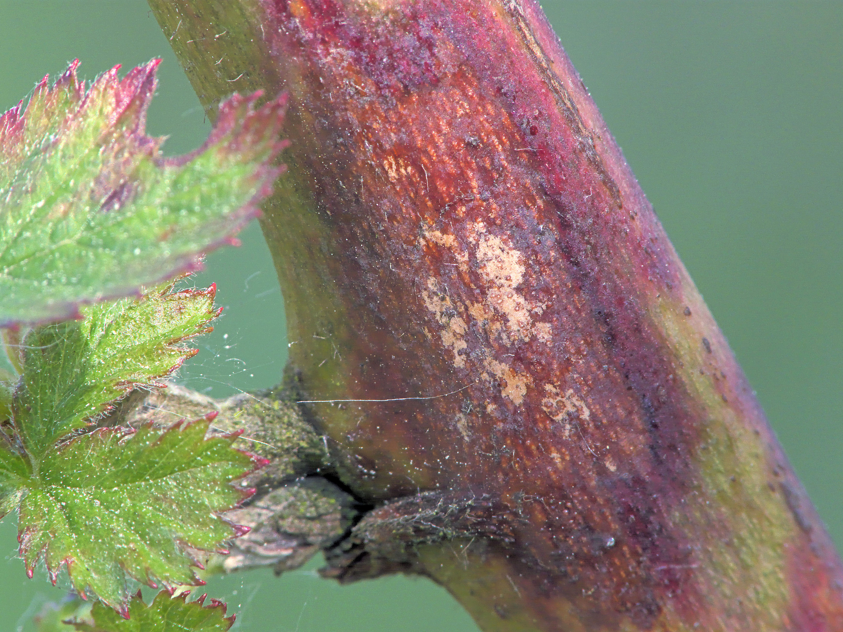 Septocyta ruborum at blackberry